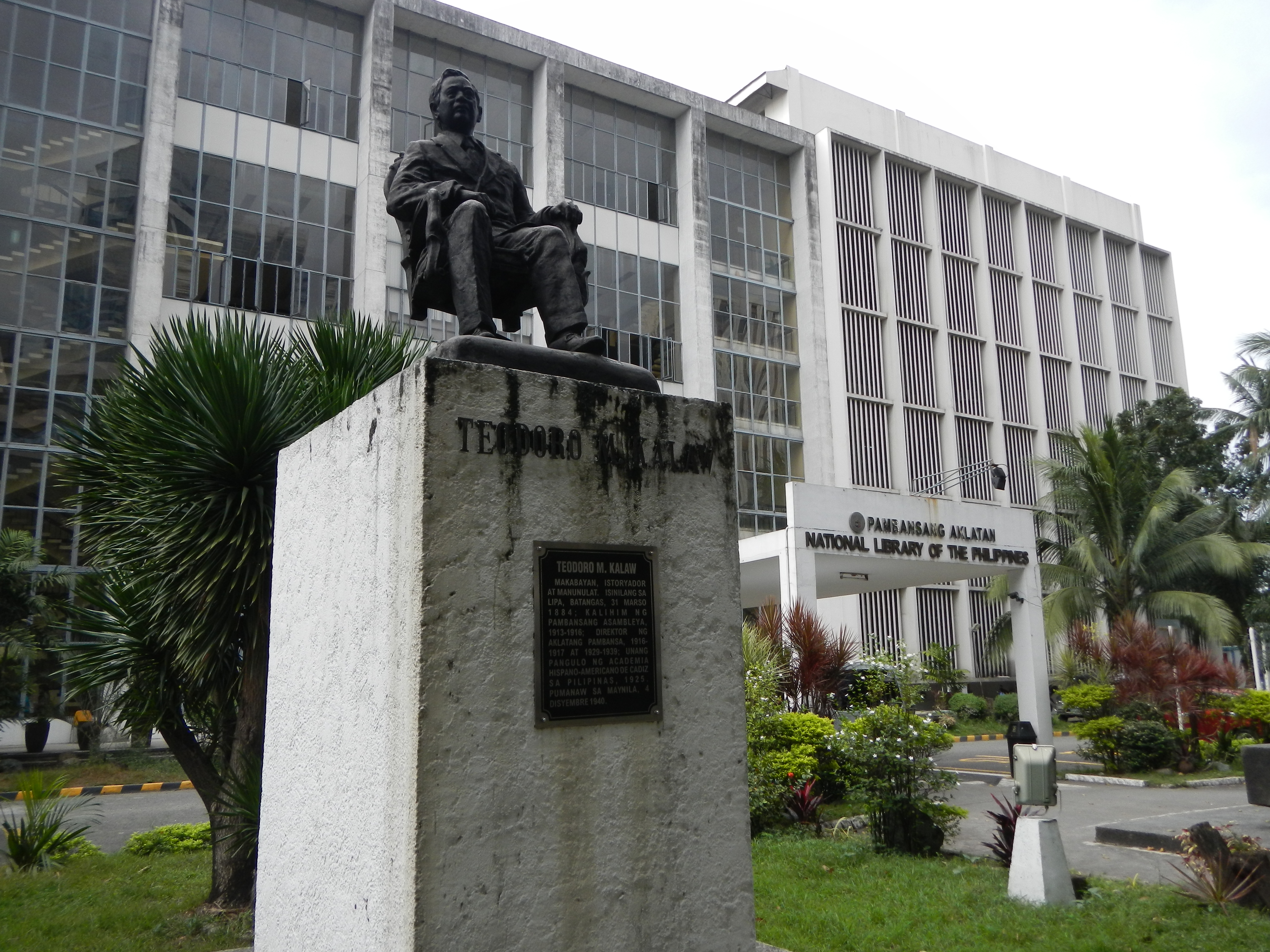 Upload Wizard of - a) Derham Park, Pasay City December 1 2003, 140th Founding Anniversary of Pasay City, Pasay Sports Complex, and b) Ang Aklatang Pambansa National Library of the Philippines[1] Rizal Park, T.M. Kalaw Avenue, Ermita, Manila - Teodoro Kalaw [2] and Apolinario Mabini statues.